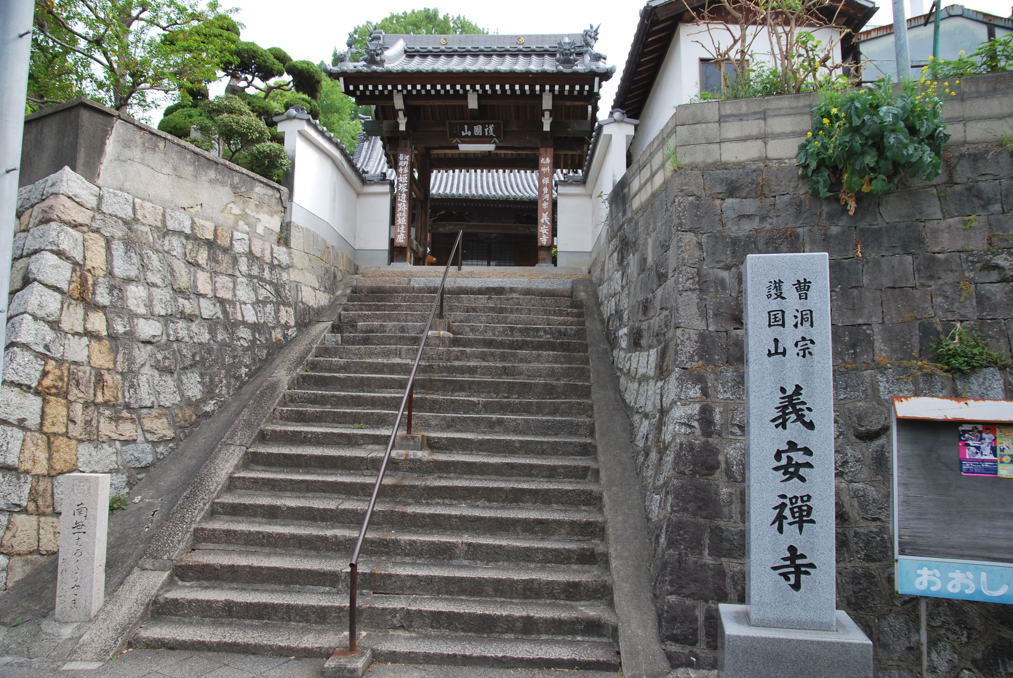 Entrance of Gian-ji